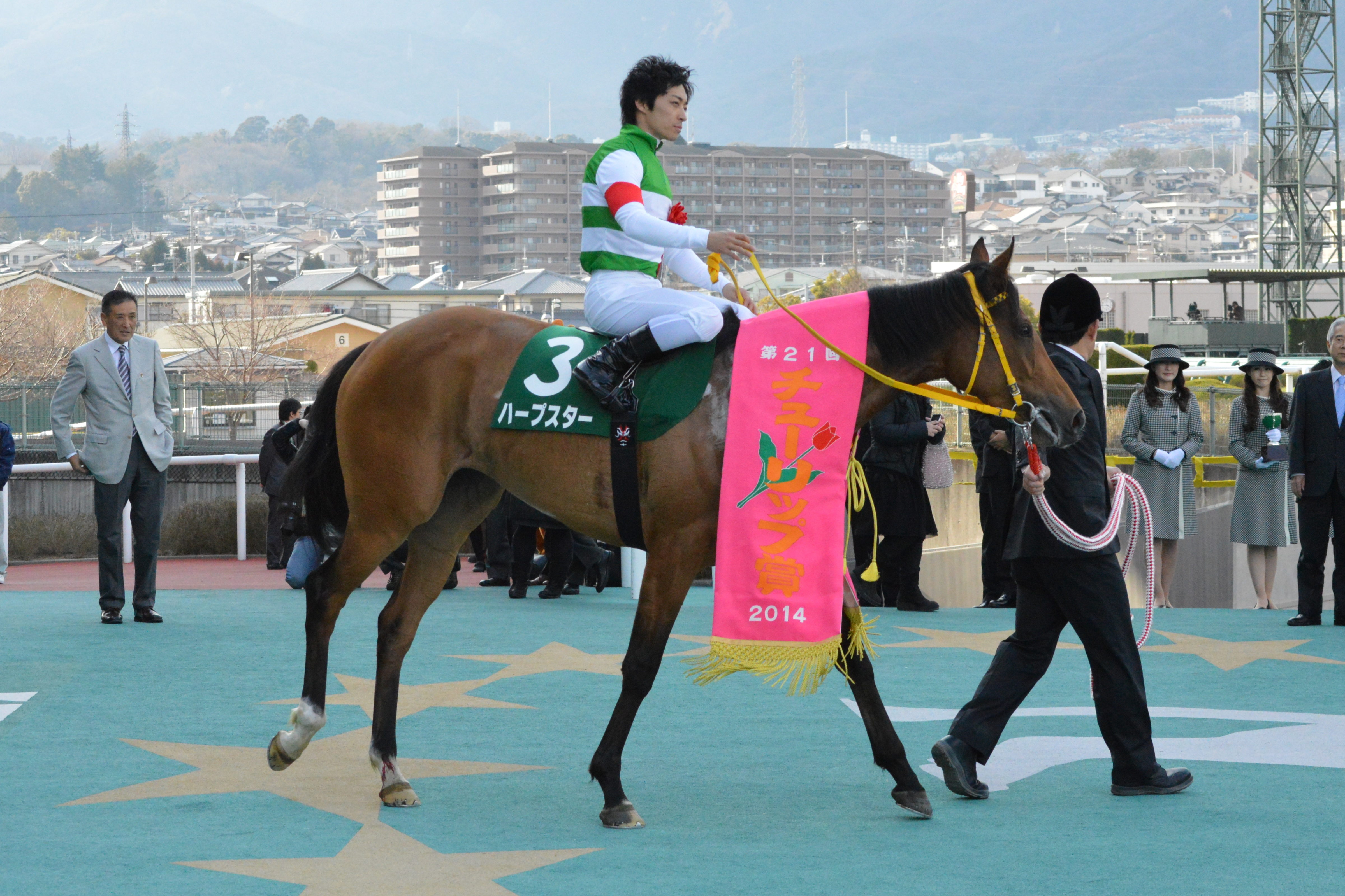 Japanese race horse Harp Star at Hanshin racecourse. Hanshin (JPN) 08 march 2014Tulip Sho (Grade 3) (Turf) RankHorse NameOddsAgeWgtTrainerJockey1stHarp Star (JPN)1/10FF38-7Hiroyoshi MatsudaYuga Kawada2ndNuovo Record (JPN)171/10F38-7Makoto SaitoYasunari IwataOthers are omitted. (13 horses entered in a race.)